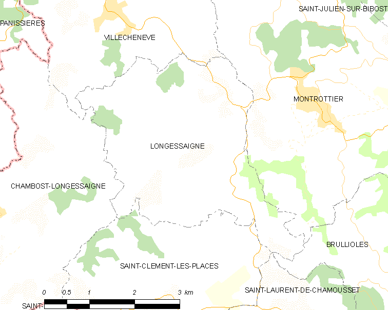 Map of French municipality